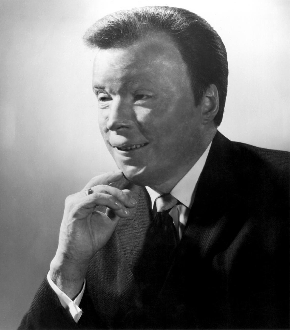 Trade ad for Merrill Womach's single "A Time For Us".To better adapt it to his respective Wikipedia article, the ad was cropped and cleaned in a graphics editing program. The original can be viewed at the source below.